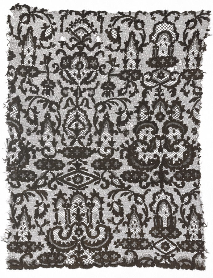 Bobbin Lace (Blonde Lace) Edging, early 19th century. Spain.